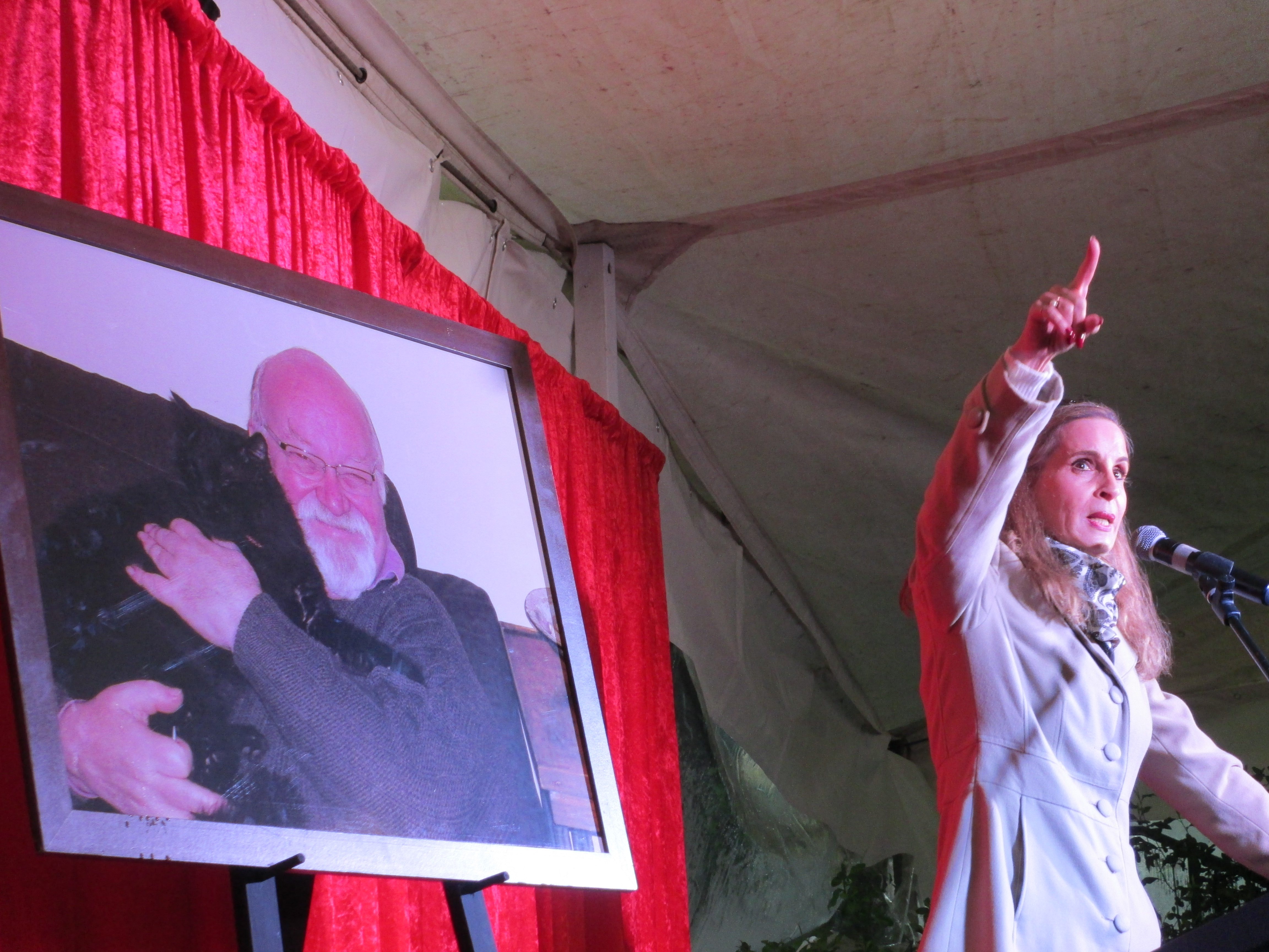 actress idit teperson השחקנית עידית טפרסון בטקס זיכרון לגרי בילו ב"בית צבי"